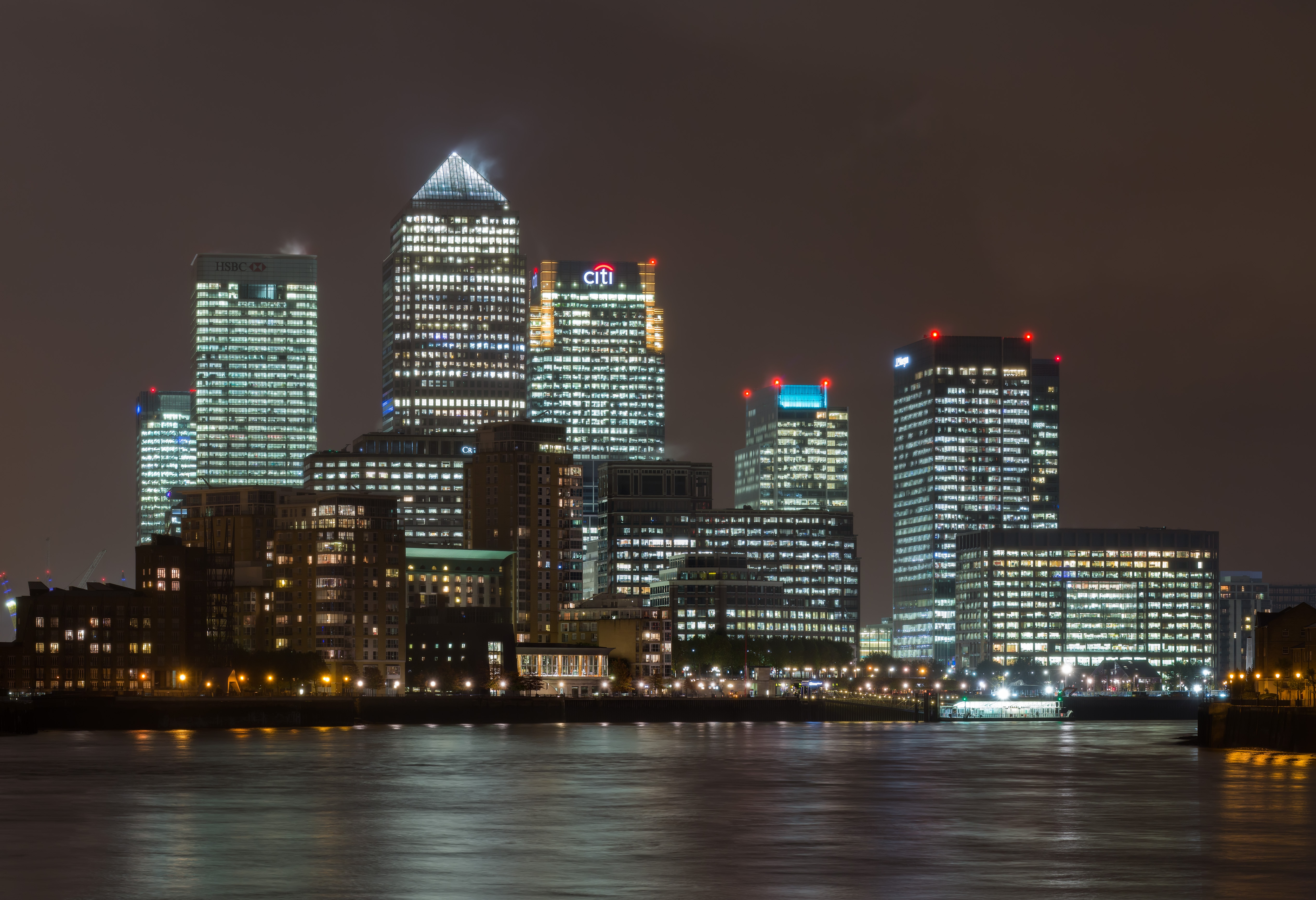 The Canary Wharf skyline as viewed from Wapping in East London, United Kingdom.